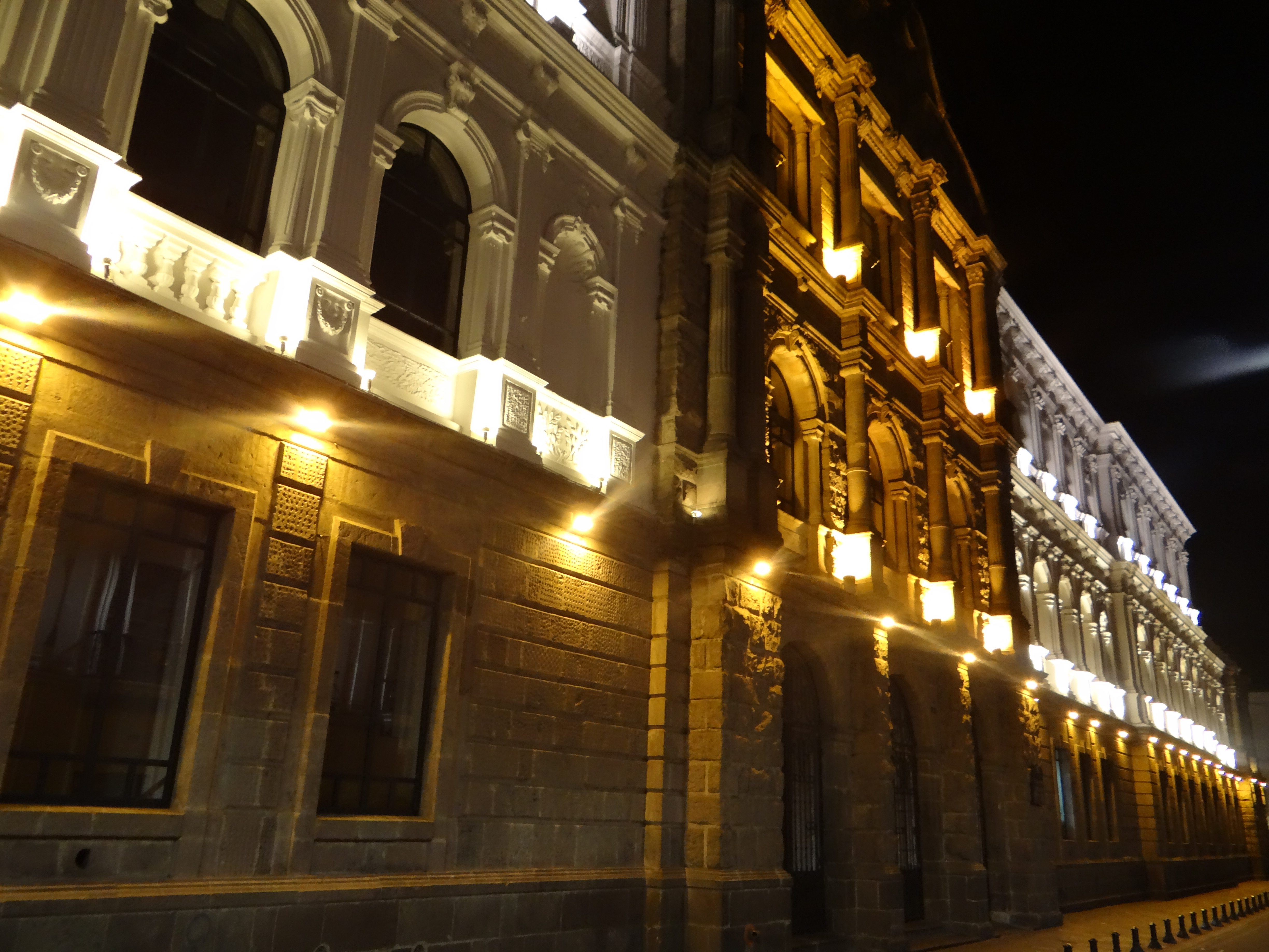 Centro Cultural Metropolitano (Quito) Calle García Moreno in the Historic Center of Quito UNESCO World Cultural Heritage Site Centro Histórico de Quito Photography by David Adam Kess